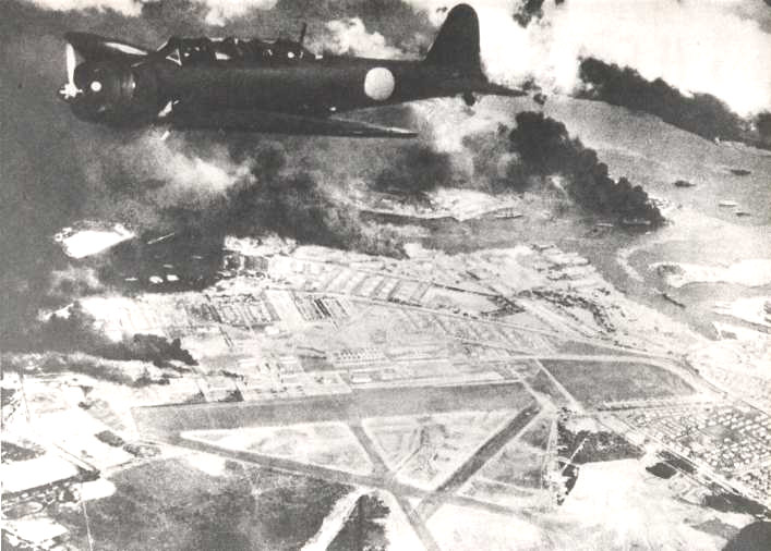 Pearl Harbor attack- Aerial view after the attack. An Imperial Japanese Navy Nakajima B5N2 torpedo plane (Kanko) from the aircraft carrier Zuikaku in the foreground over Hickam field. USS California is visible in center, and tanker USS Neosho is off Kuahua, en route to Merry Point. Smoke from Drydocks, Battleship row in distance. Japanese caption reads: "Pearl Harbor in flame and smoke, gasping helplessly under the severe pounding of our Sea Eagles."